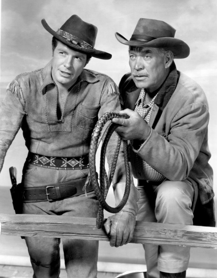 Photo of Robert Horton as Flint McCullough and Ward Bond as Seth Adams from the television program Wagon Train. McCullough's role was that of the wagon train's scout while Adams was its wagonmaster.